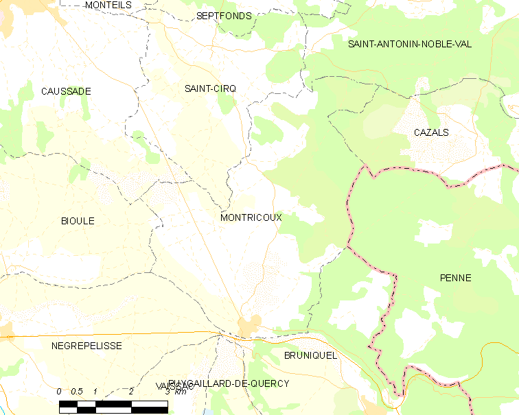 Map of French municipality Montricoux